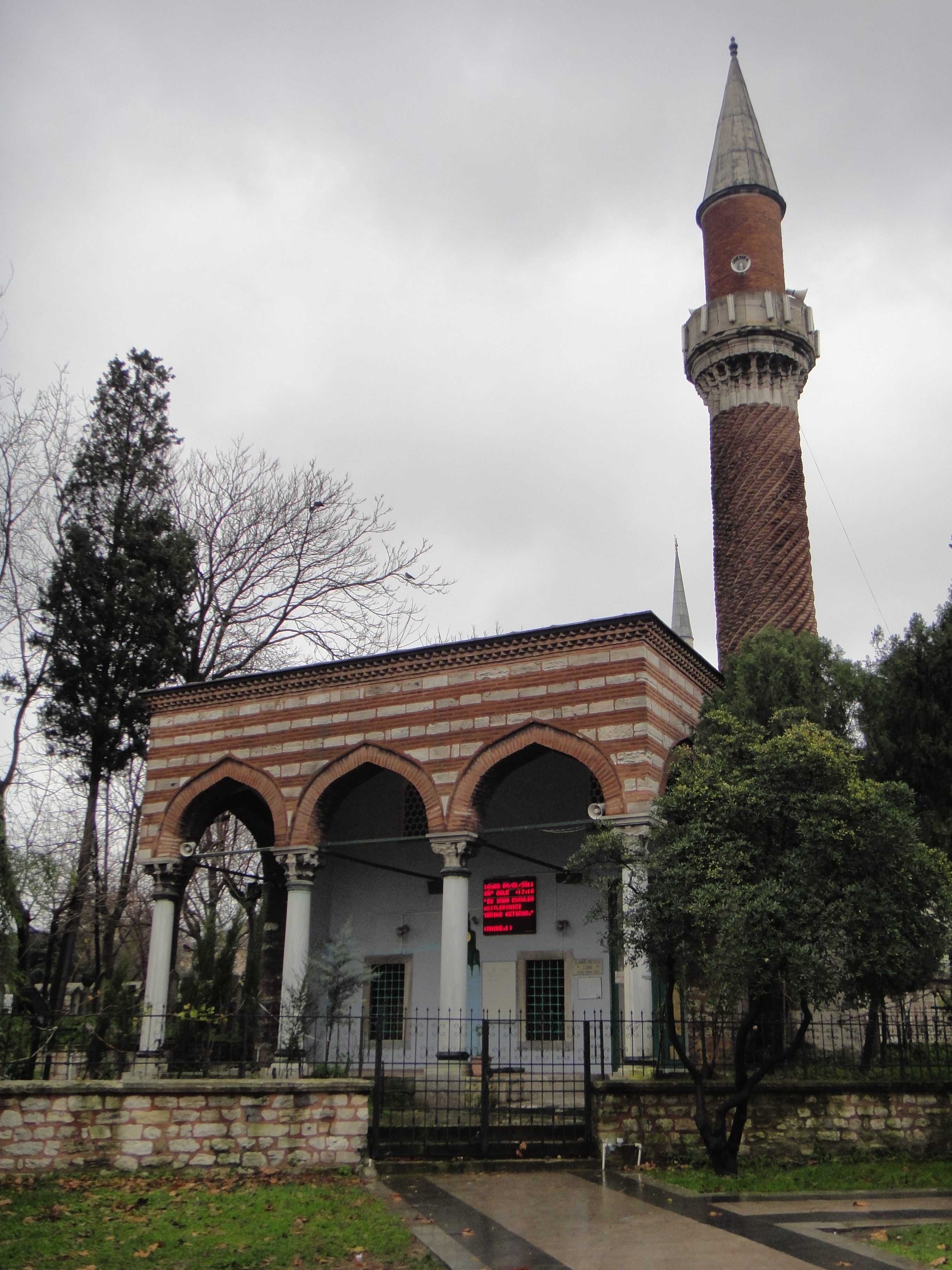 The Mosque with the Spiral Minaret (Burmalı Mescit Camii or Burmalı Minare Camii'), a 16th century Ottoman mosque in Şarachane park, Fatih municipality, Istanbul, Turkey.